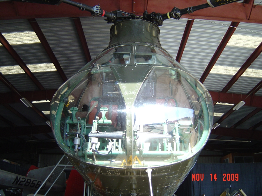 A picture of the only H-21 still flying at the Classic Rotors Museum Hanger. (Front View)